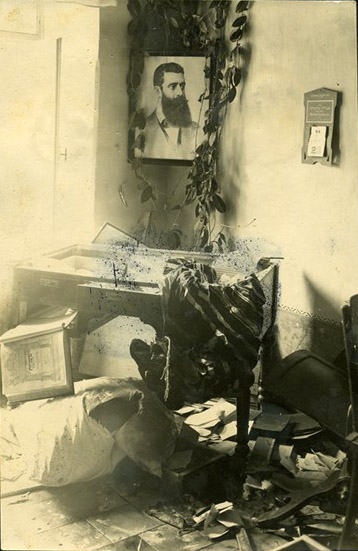 Home of Jewish scribe plundered and destroyed. Portrait of Theodor Herzl on the wall. Stamp on reverse side : “Tzalmonia Zion, Y. Berliner, Jerusalem”. Hebron, August 1929.